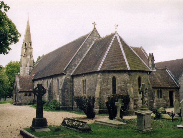 St Mary's parish church, Sholing, Hampshire, seen from the south